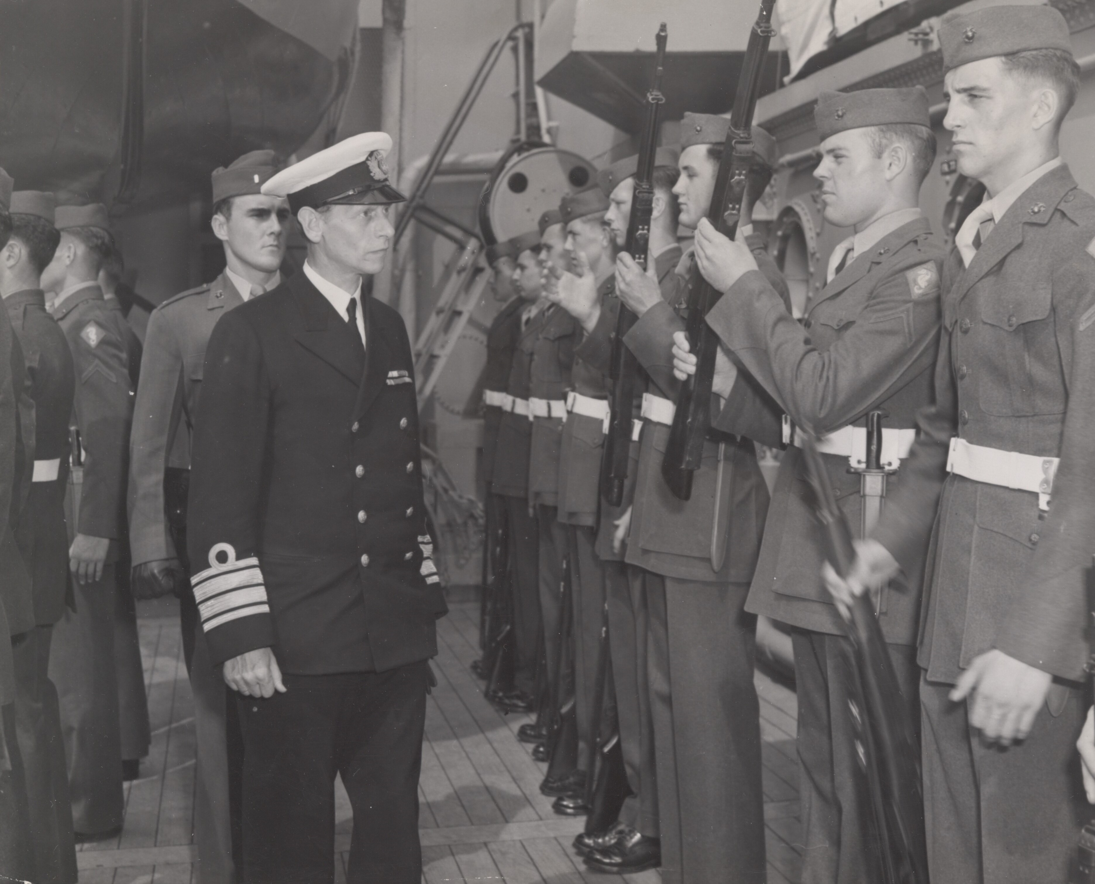 Vice admiral Vedel, Commander-in-Chief of the Royal Danish Navy inspecting Admiral Hewitt's Marine Guard aboard the flagship USS Houston (CL-81)